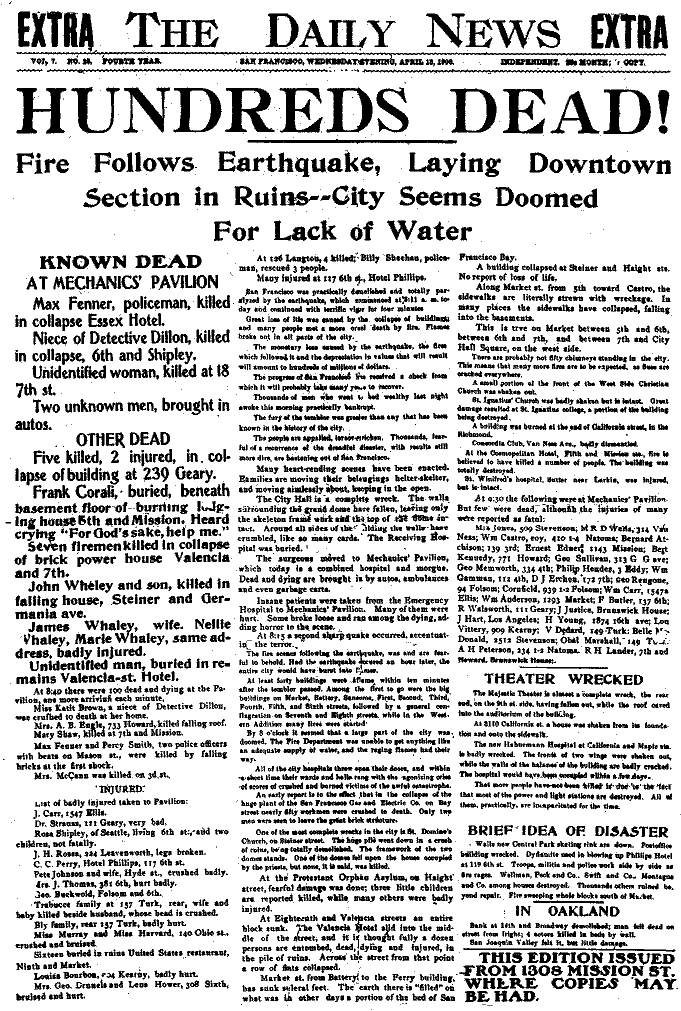 Front page of the first Daily News published on April 18, 1906 after the earthquake in San Francisco.